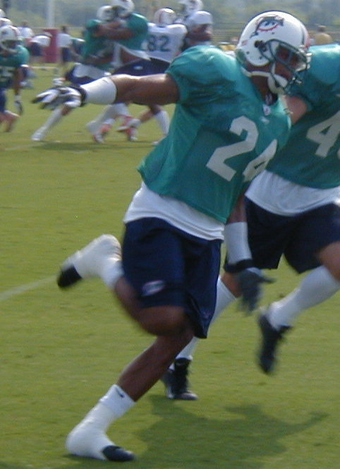 If used somewhere other than Wikipedia, Nelson, by name.